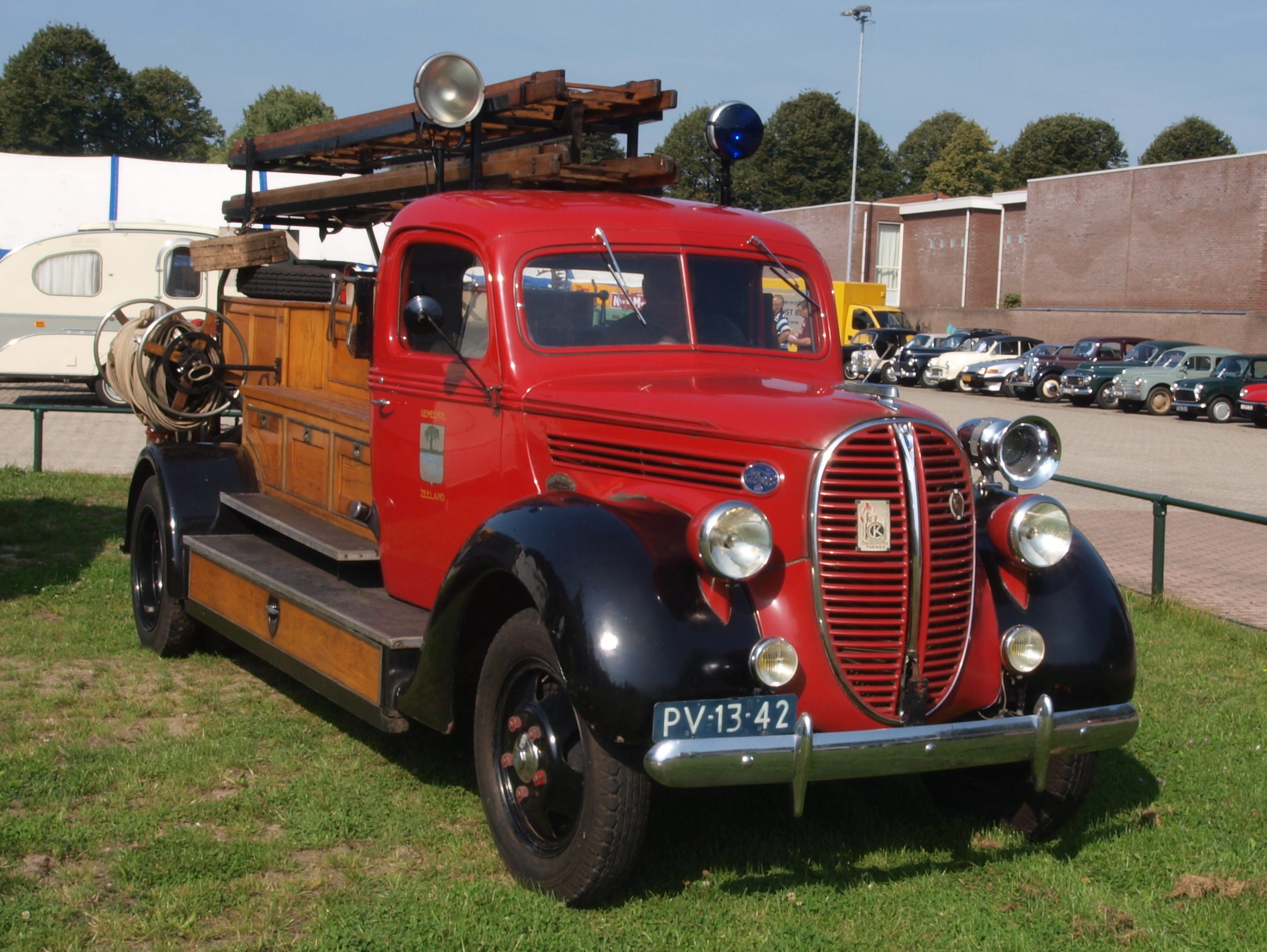 Photographed at the Classic Vehicle meeting 'Klassiek Mechaniek Zeeland 2011', The Netherlands.